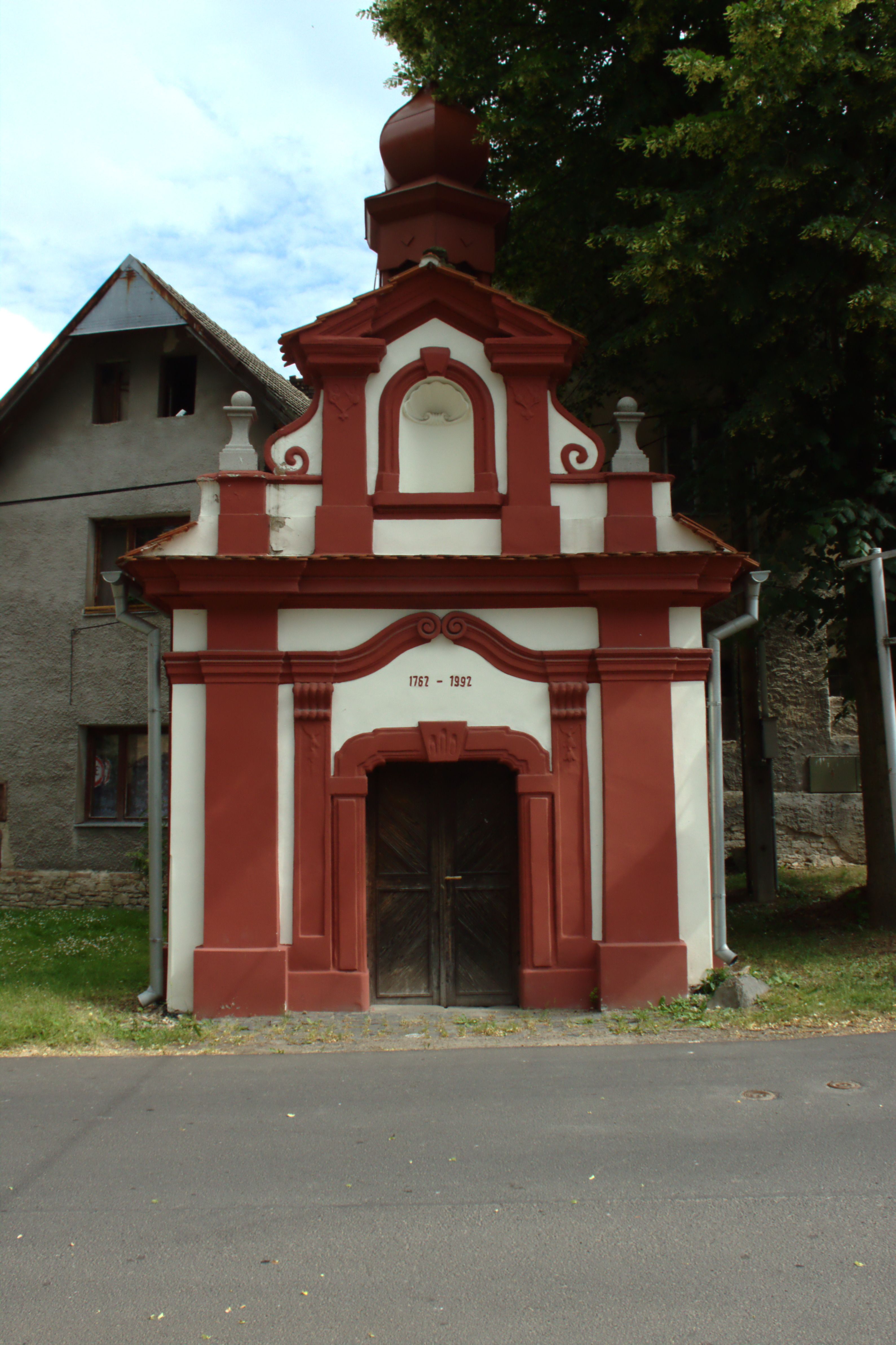 A chapel at the main crossroad in the village of Svařenice, Ústí Region, Cz